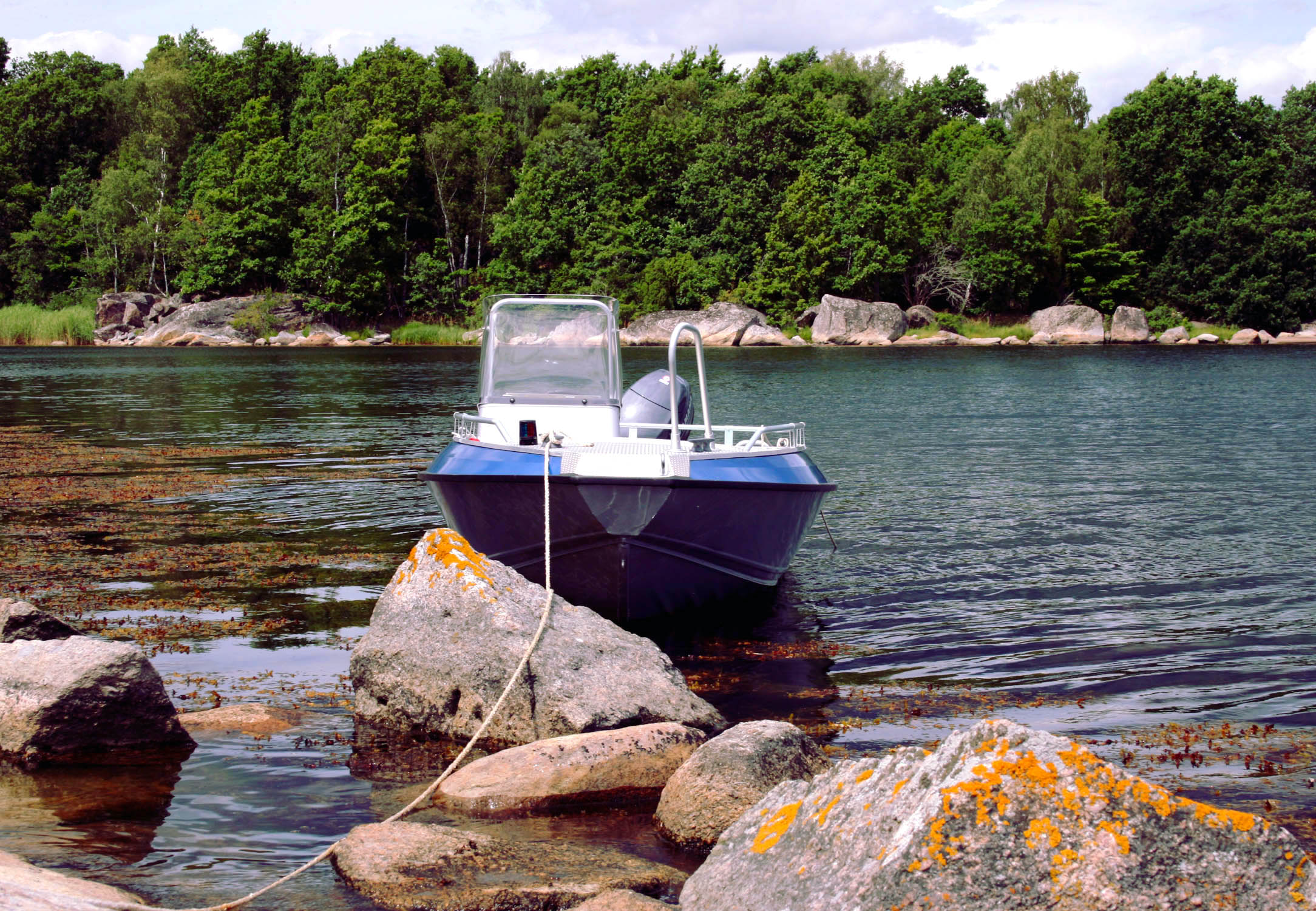 Buster M motorboat, the same boat as Image:Busterm.jpg